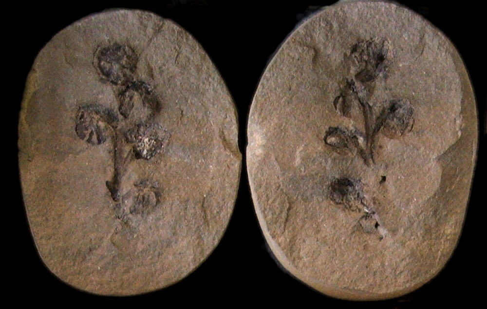 Crossotheca hughesiana.. From the Sedgwick Museum's collection.